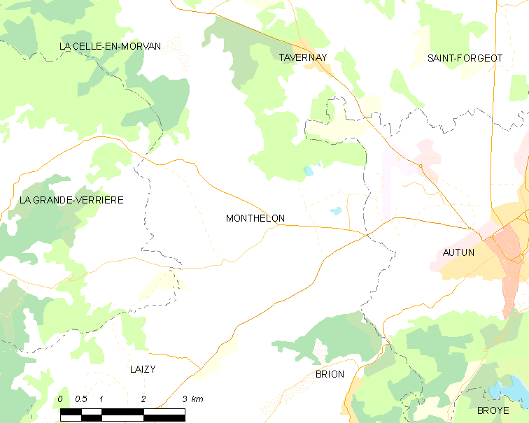 Map of French municipality